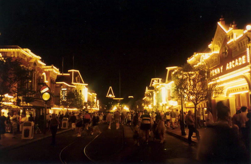 Main Street, U.S.A. Disneyland 1996 at night Taken by Ellen Levy Finch (User:Elf)